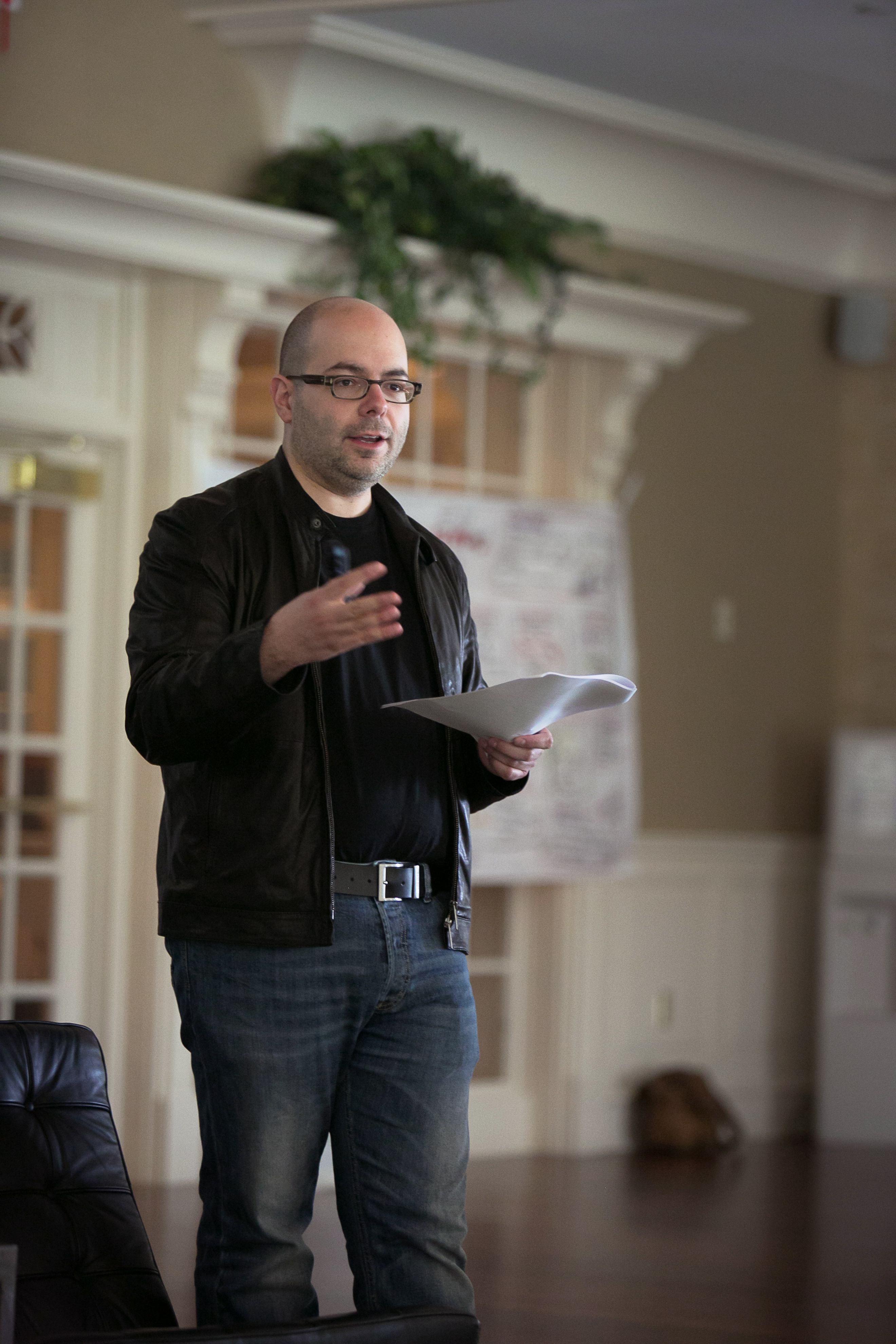 Christopher Chabris speaking at PopTech 2012, Northport, Maine, USA.